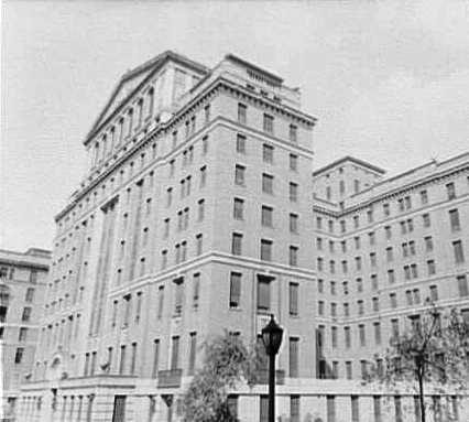 Bellevue Hospital, 28th St., New York City. View from outpatient's room IA